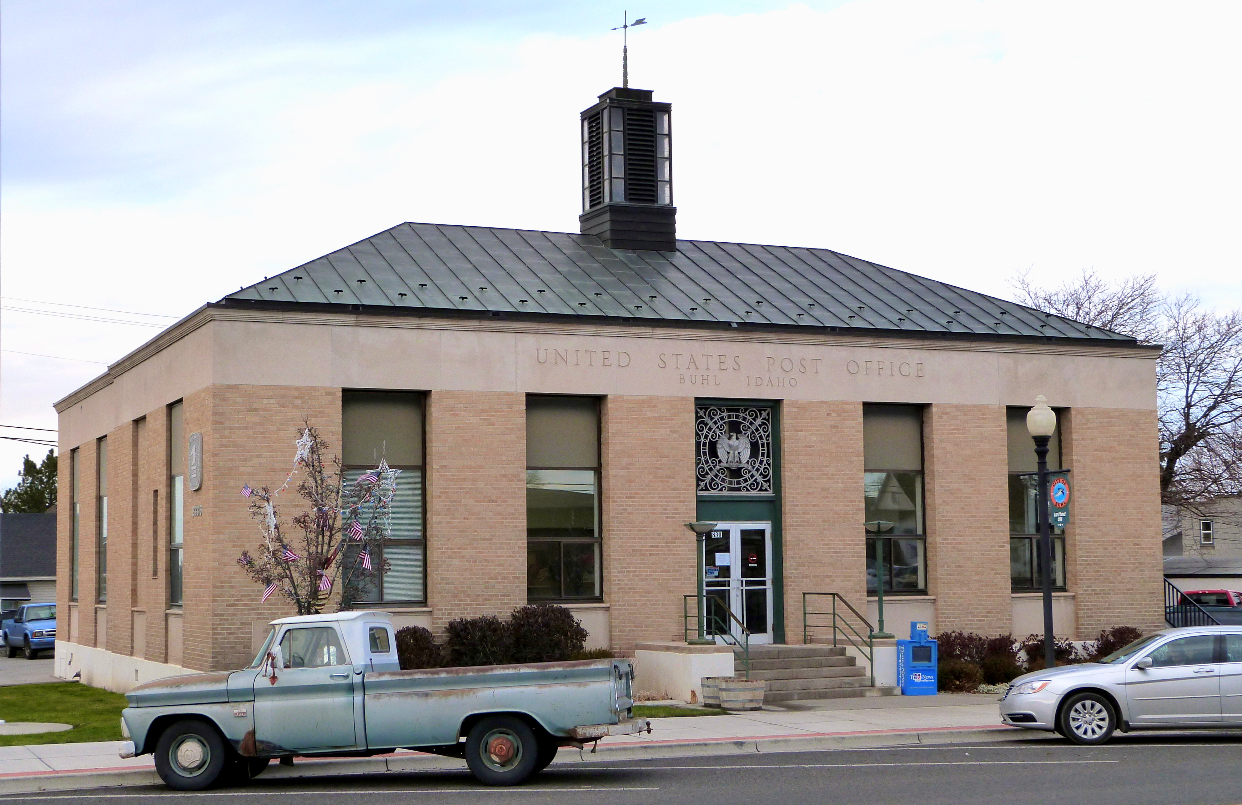 The historic United States Post Office in (built 1940), located at 830 Main Street in Buhl, Twin Falls County, Idaho, United States . It is listed on the US National Register of Historic Places.